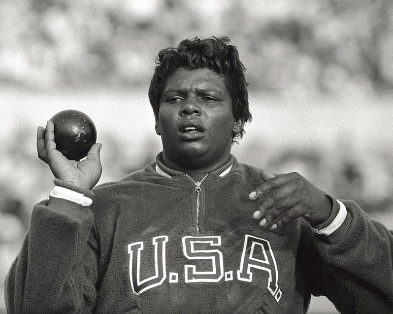 Earlene Brown at the 1960 Olympics.